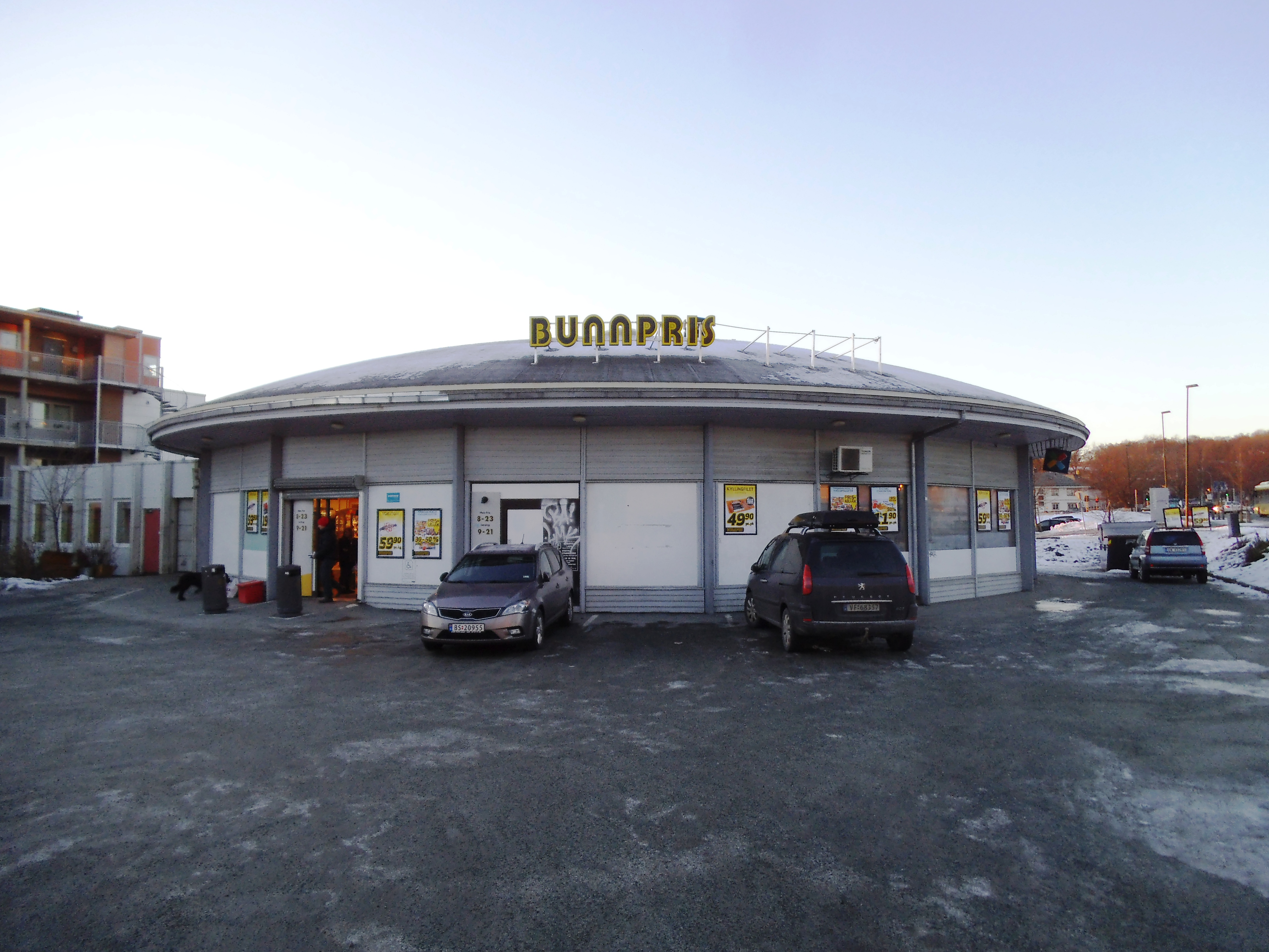 Bunnpris in Lade, Trondheim. A grocery store in Lade, Trondheim.